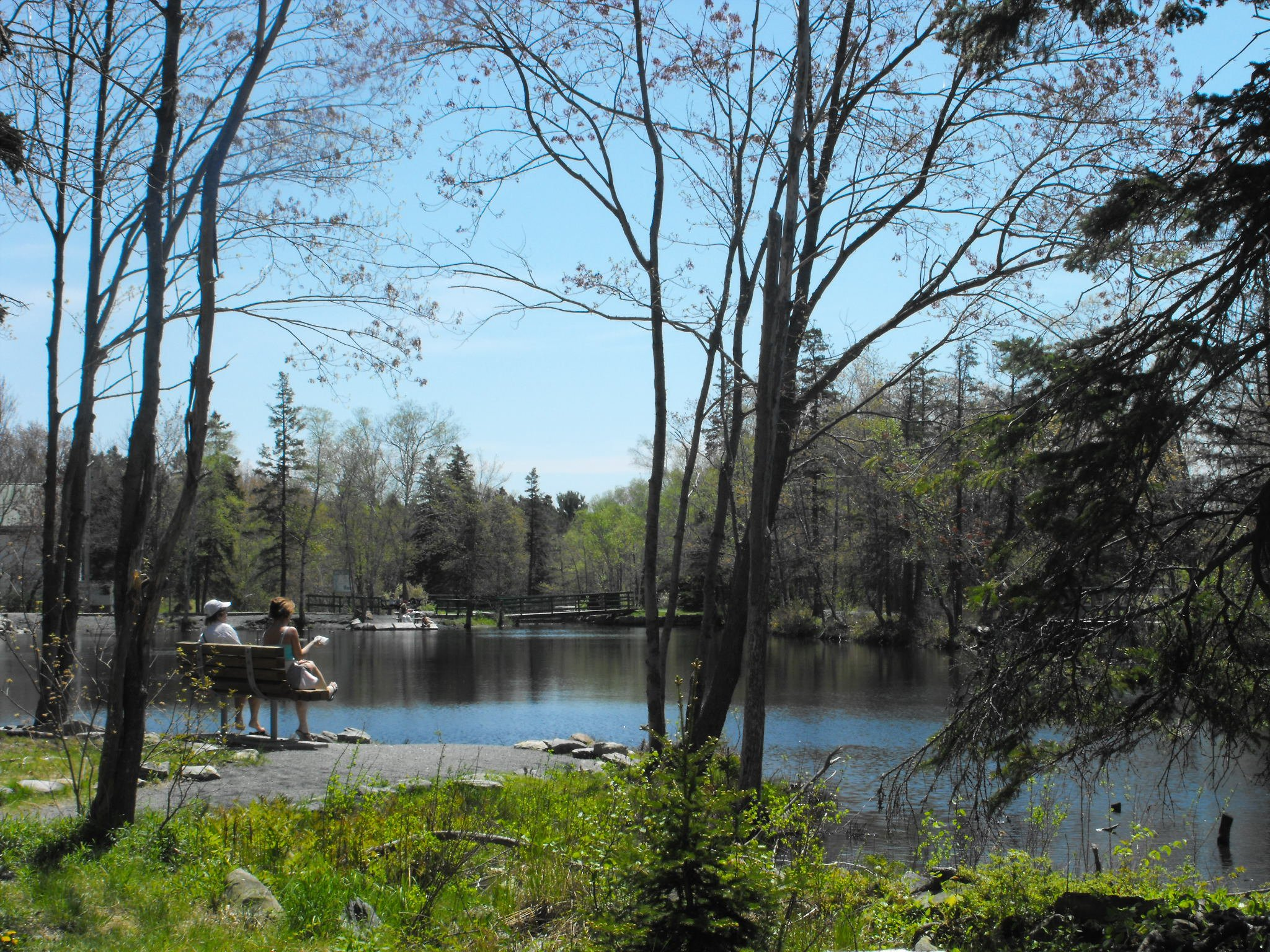 Shubie Park, May 2009